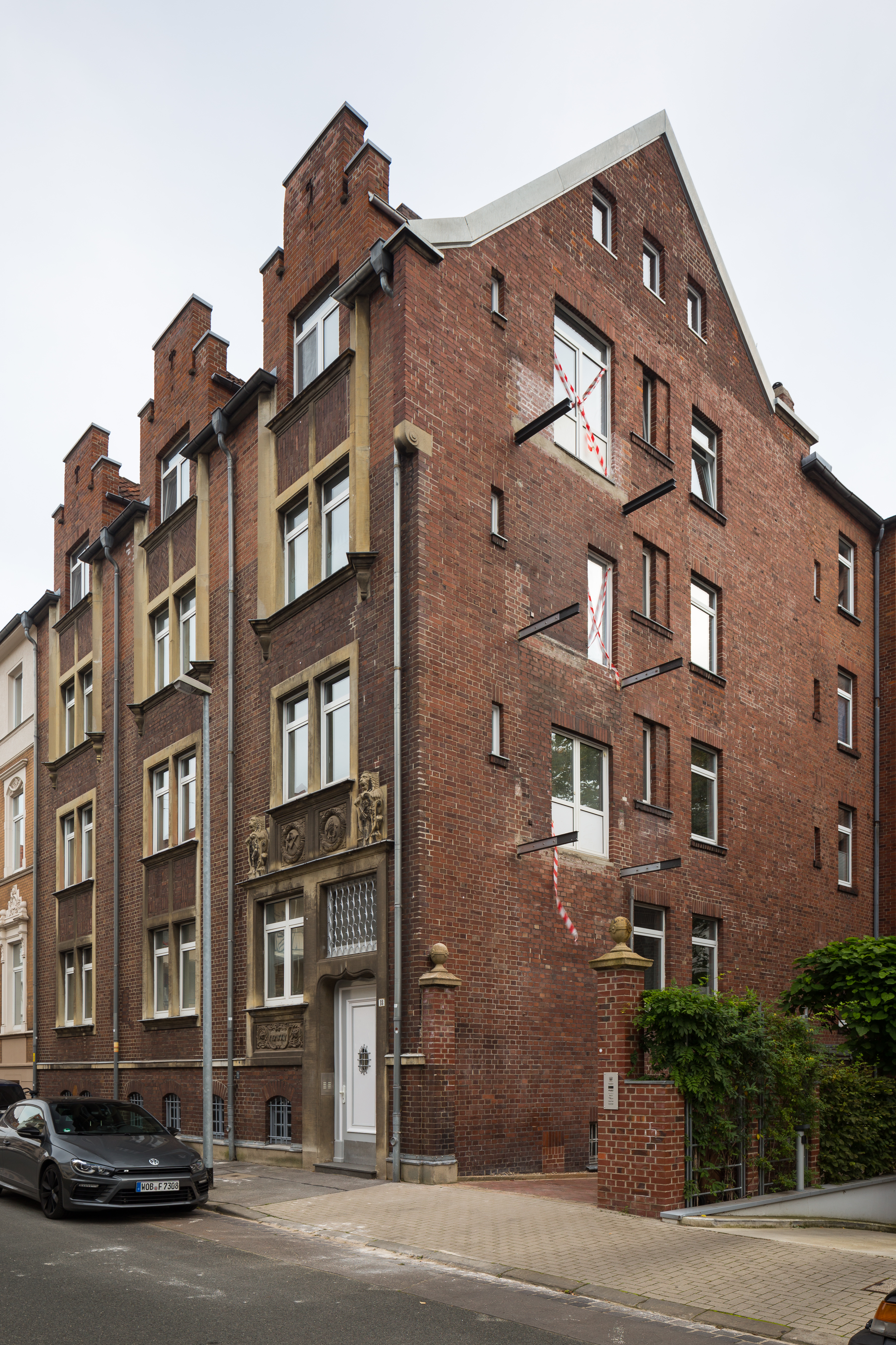 Apartment house located at Hedwigstrasse no. 18 in Mitte quarter of Hannover, Germany.